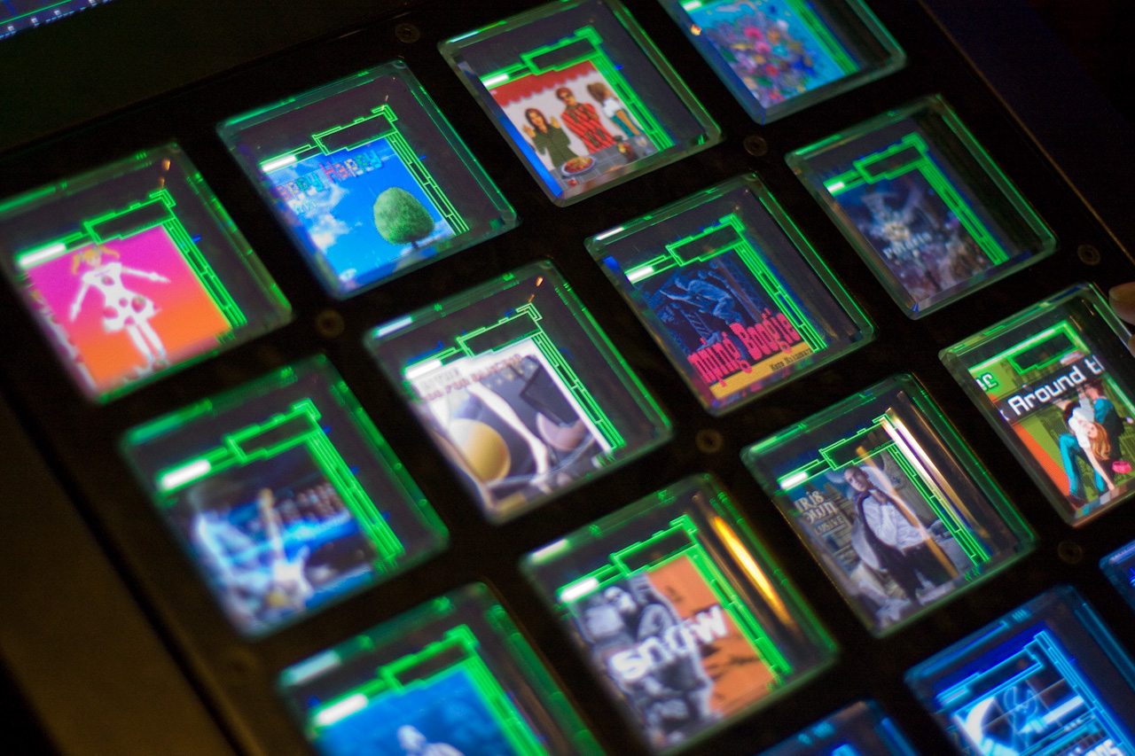 The song select screen on the UBeat machine at the Irvine, CA location test. The game showed 12 songs at a time with arrows at the bottom to switch pages. Taken at Boomers! in Irvine, California.